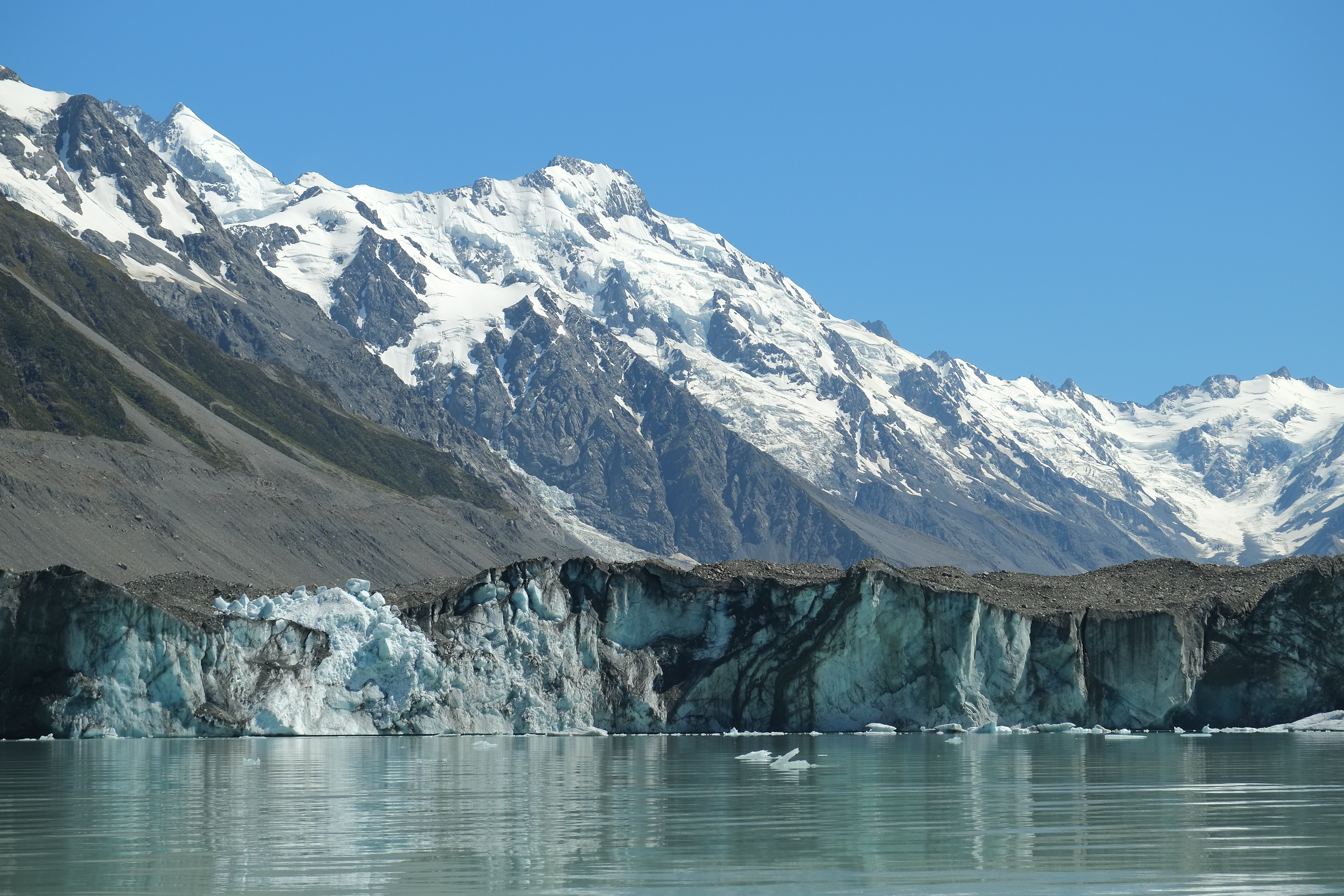 Close-up of Tasman Glacier terminus in front of Mt Haidinger, viewed from Tasman Glacier Lake